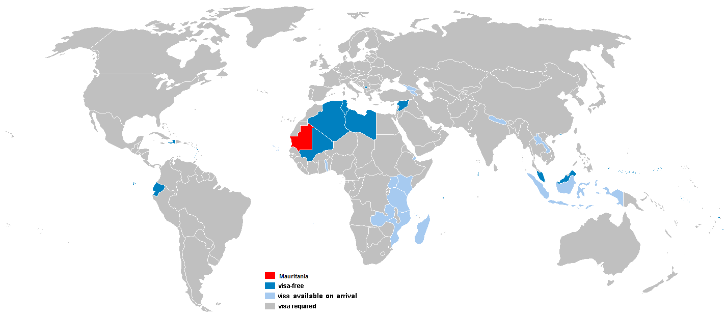 visa requirements for the citizens of the islamic republic of mauritania